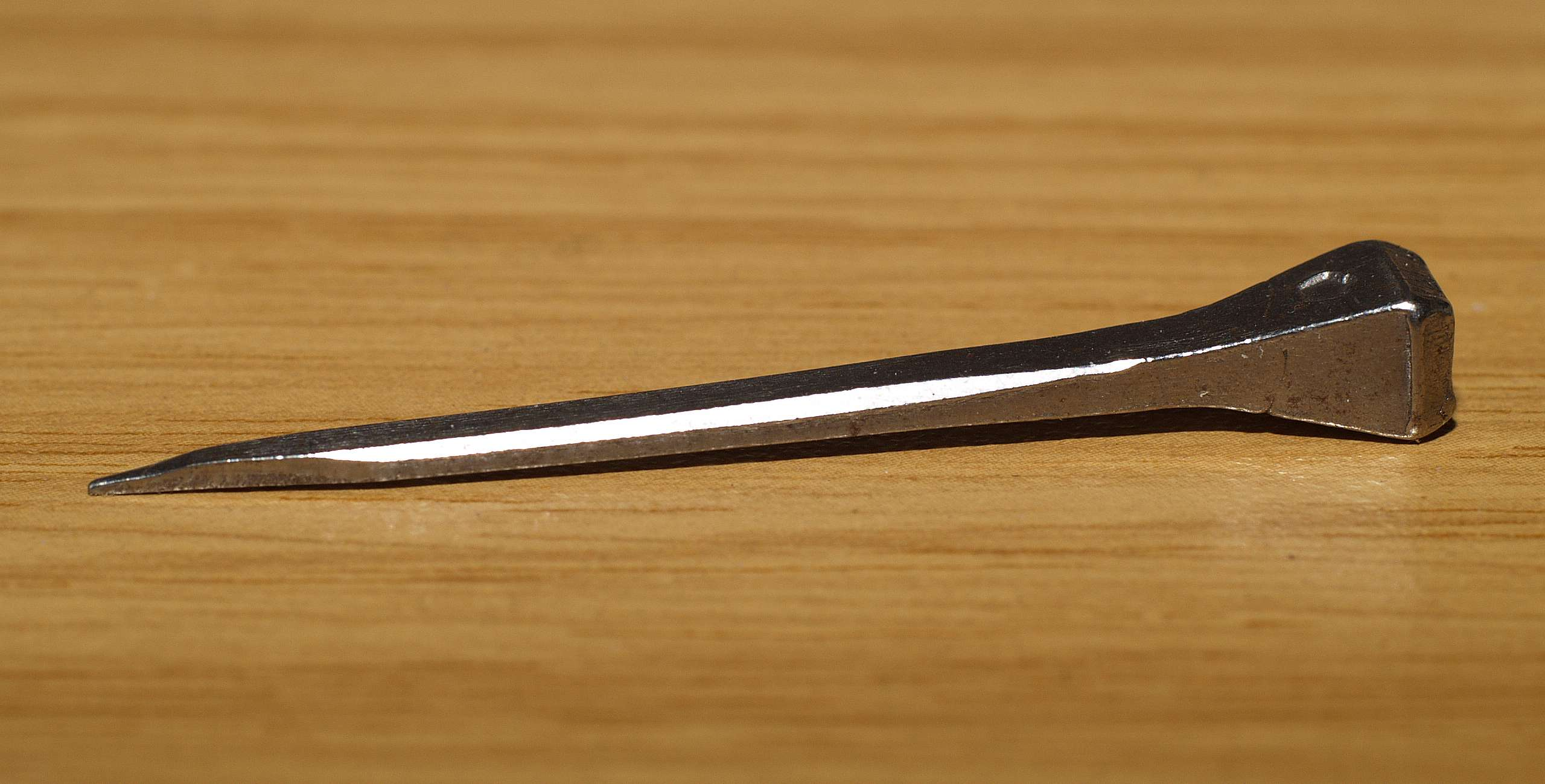 Hoof nail, Hufnagel